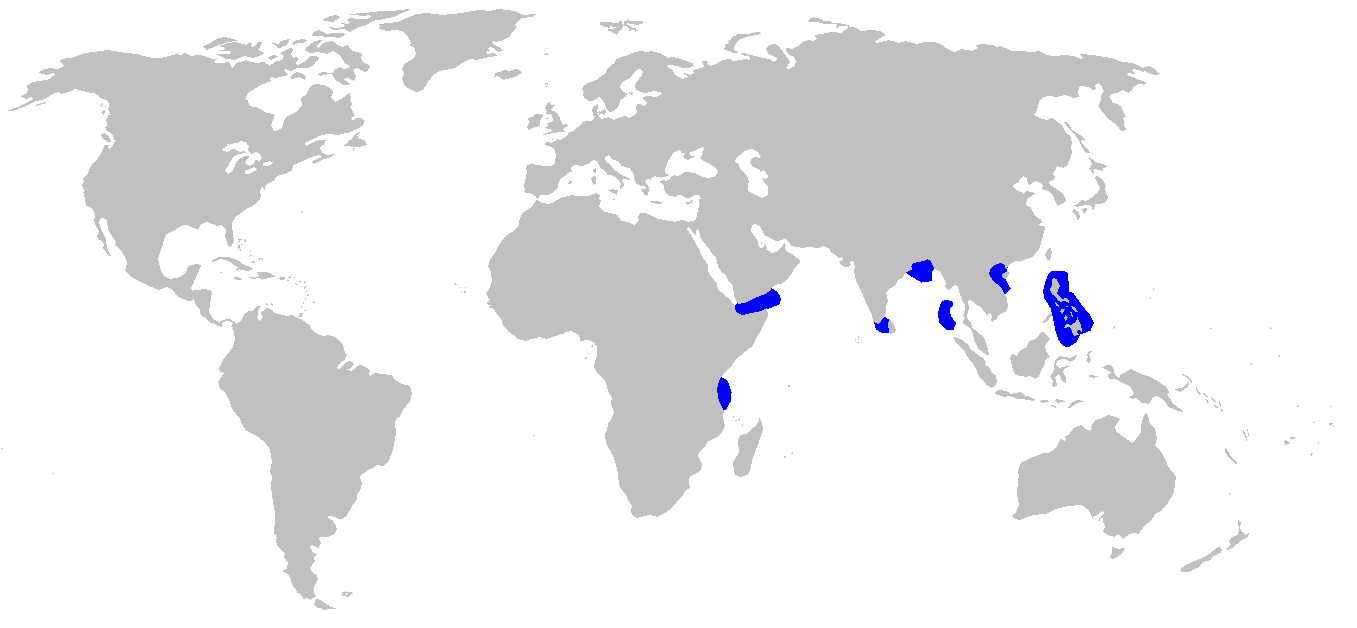 Distribution map for Eridacnis radcliffei